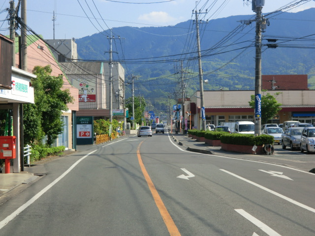 Starting point of Fukuoka Prefectural Road No.718 of Ukiha city,Fukuoka prefecture,Japan.